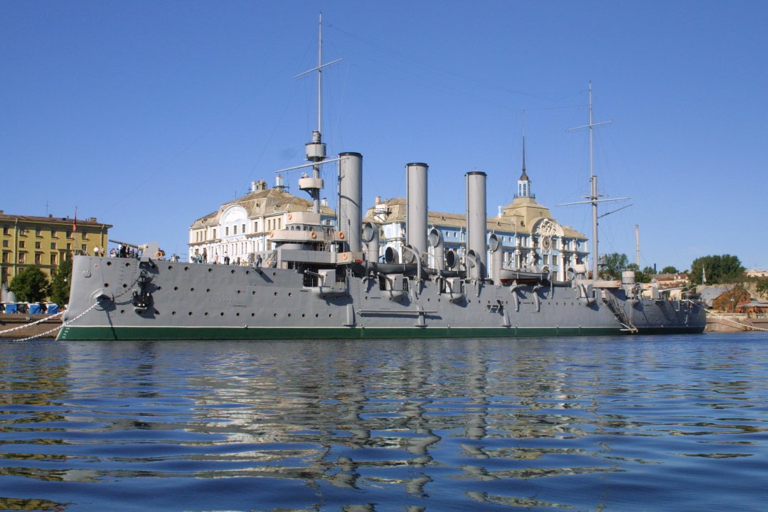 Russian cruiser "Aurora", now museum in Saint-Petersburg.